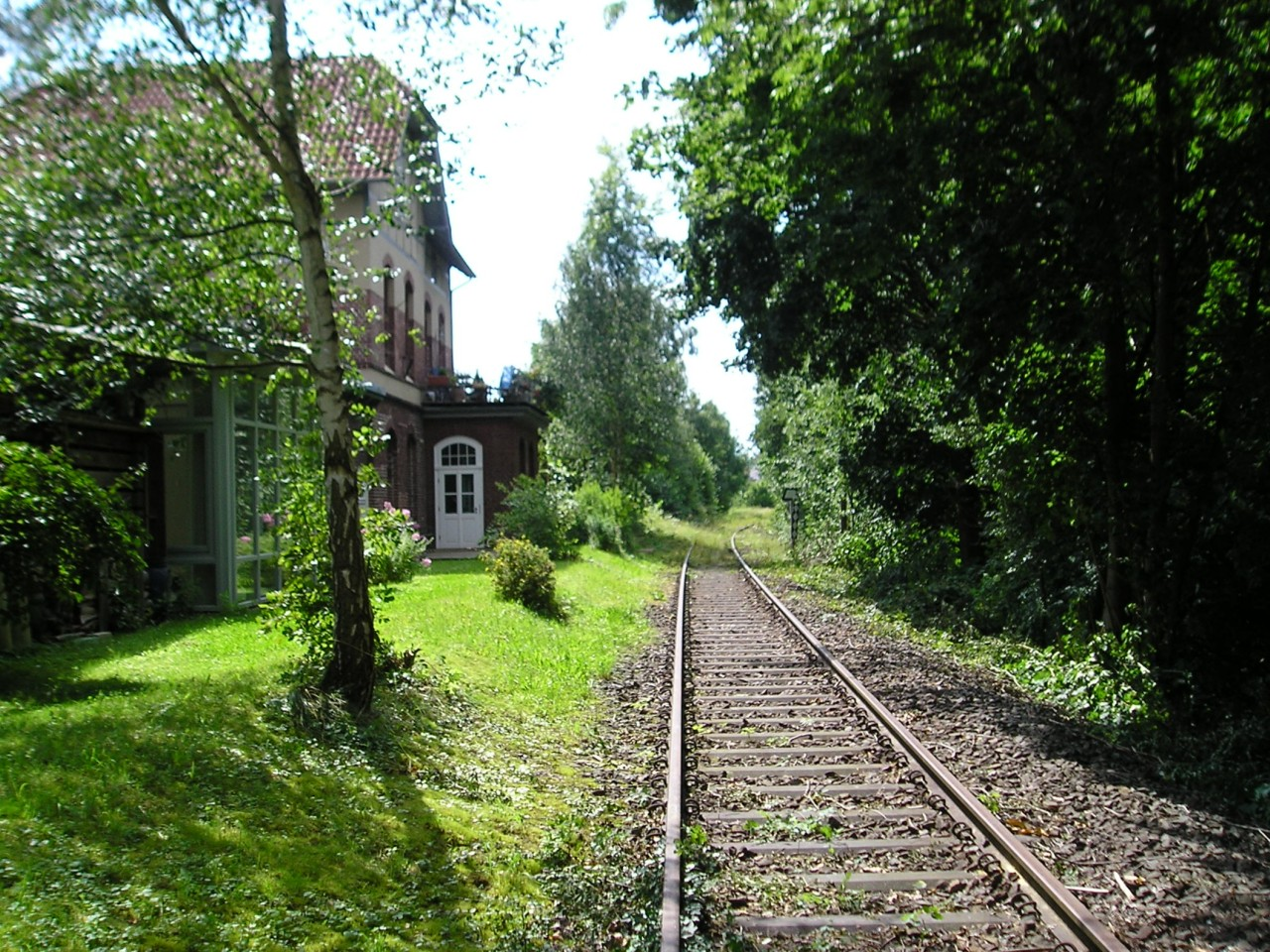 Former station at Brake near Lemgo, District of Lippe, North Rhine-Westphalia.